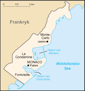 An Afrikaans map of Monaco.